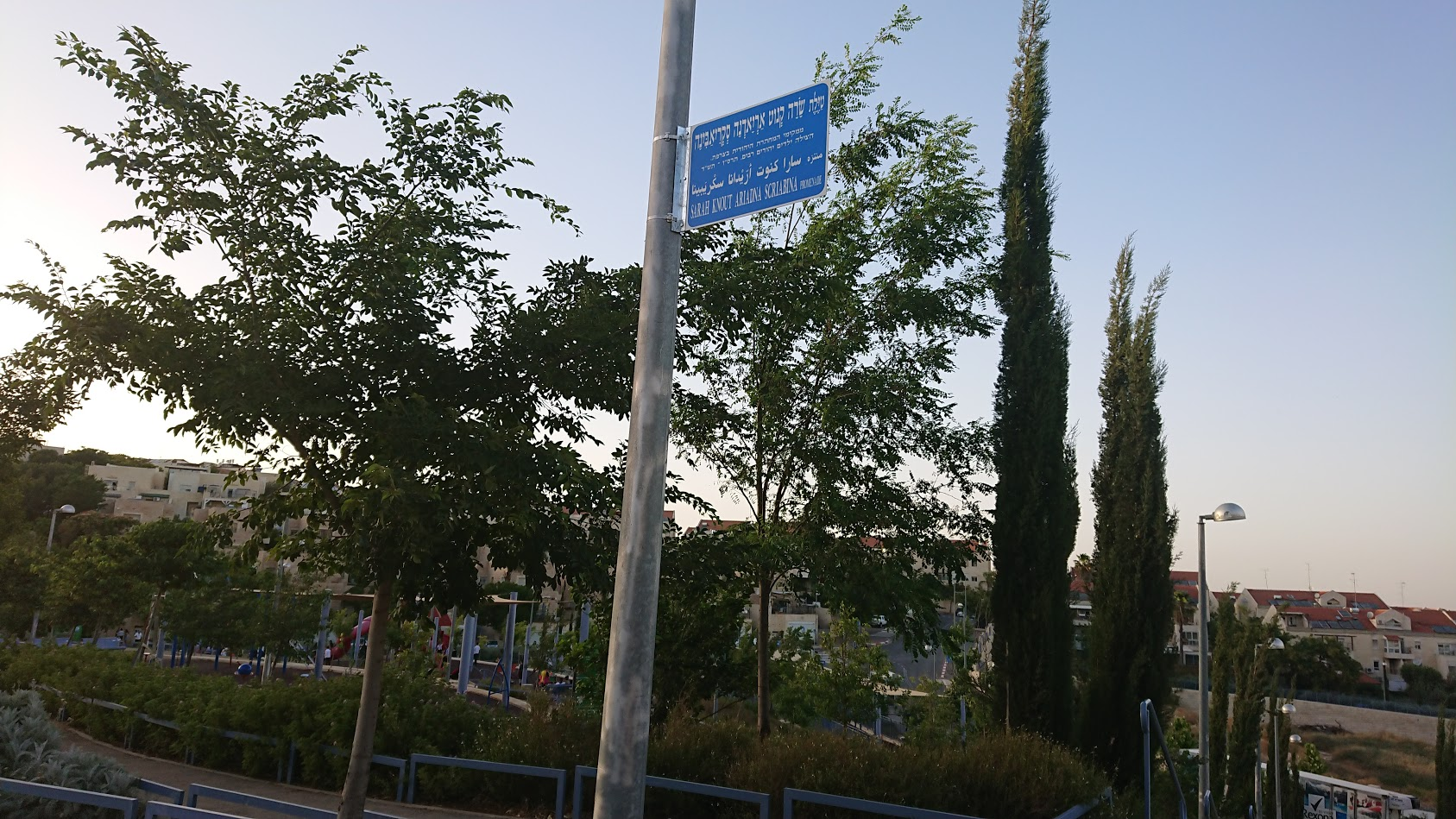 Променада имени Ариадны Скрябиной в Писгат-Зеэве, Иерусалим